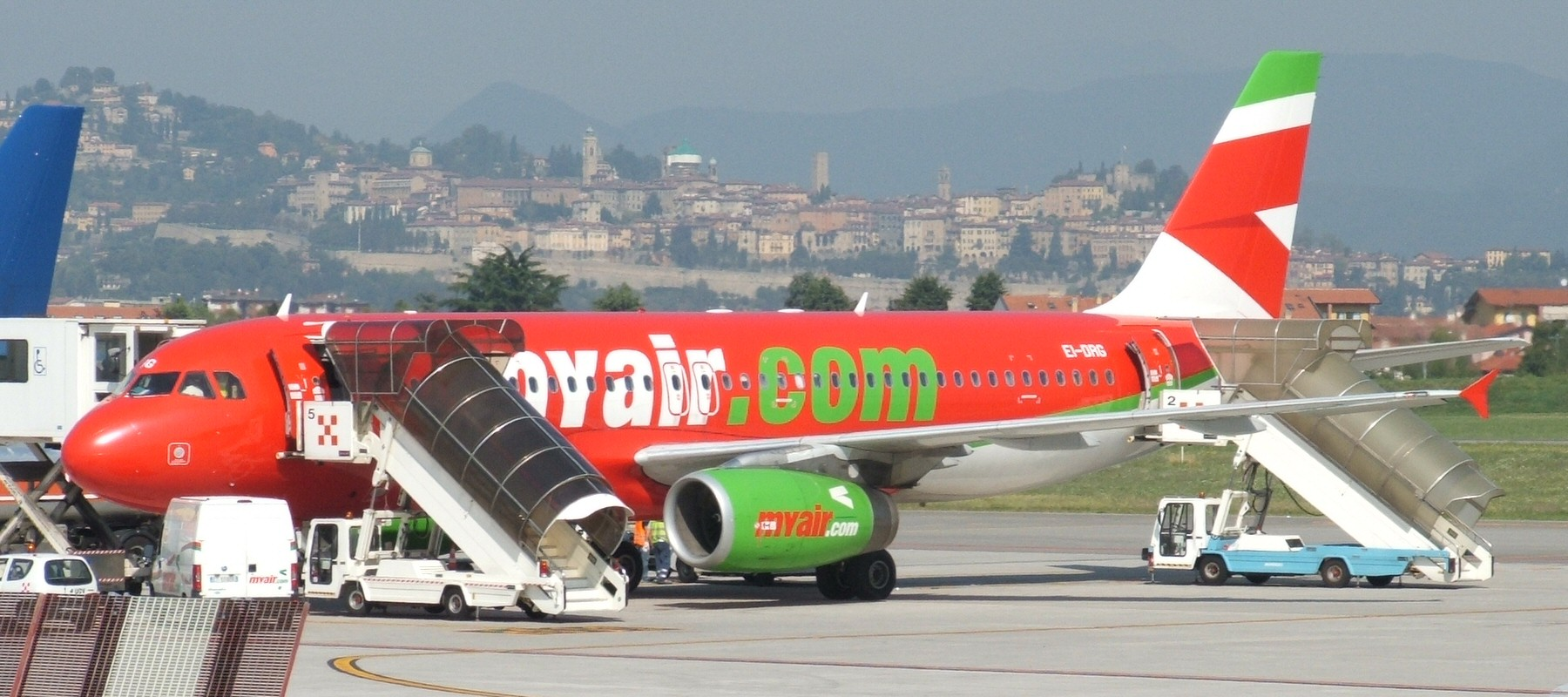 Airbus A320 - at Bergamo-Orio al Serio airport - Italy